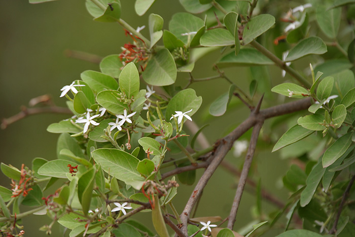 Karaunda Carissa carandas in Hyderabad , India.